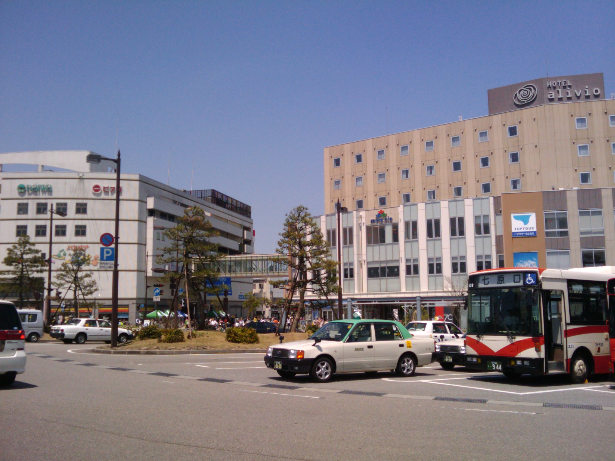 Nanao Station (Nanao, Ishikawa, Japan)